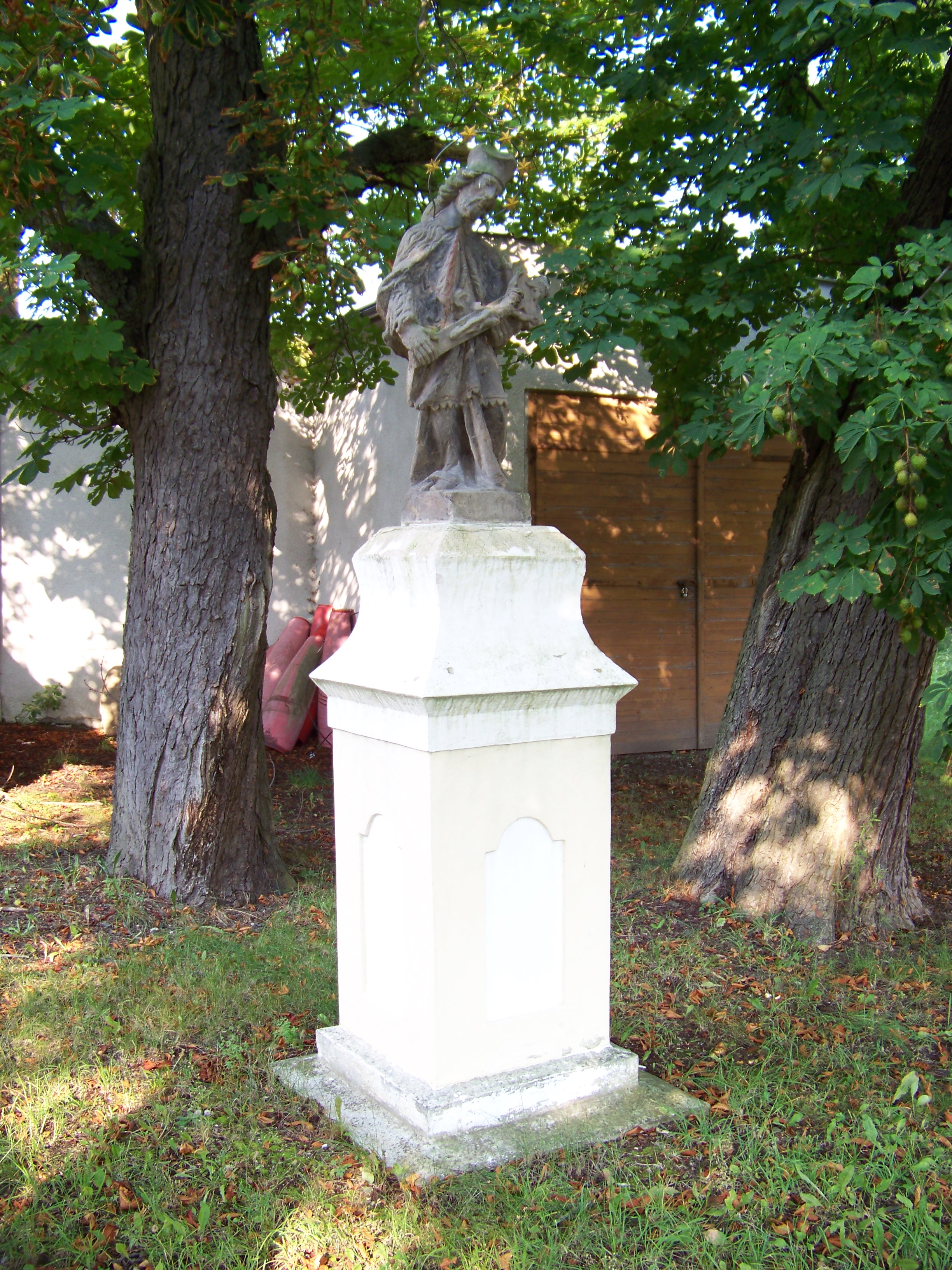 Všesulov, Rakovník District, Central Bohemian Region, the Czech Republic. A statue of Saint John of Nepomuk.